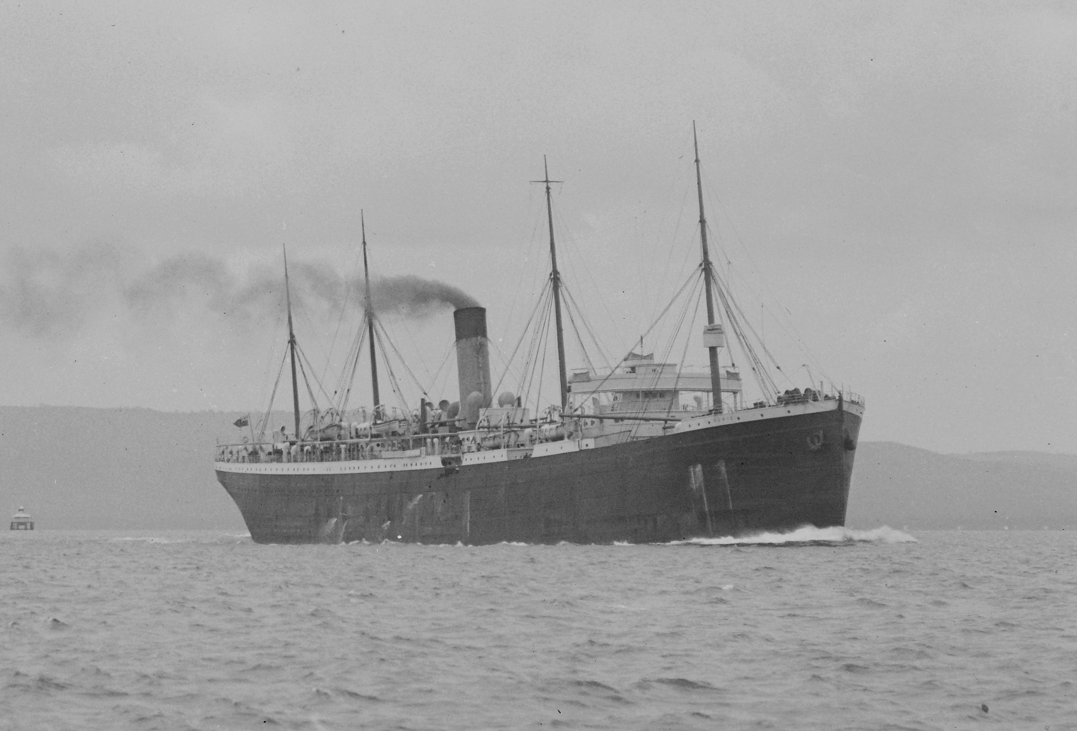 The steamship and „White Star Liner“ Runic.